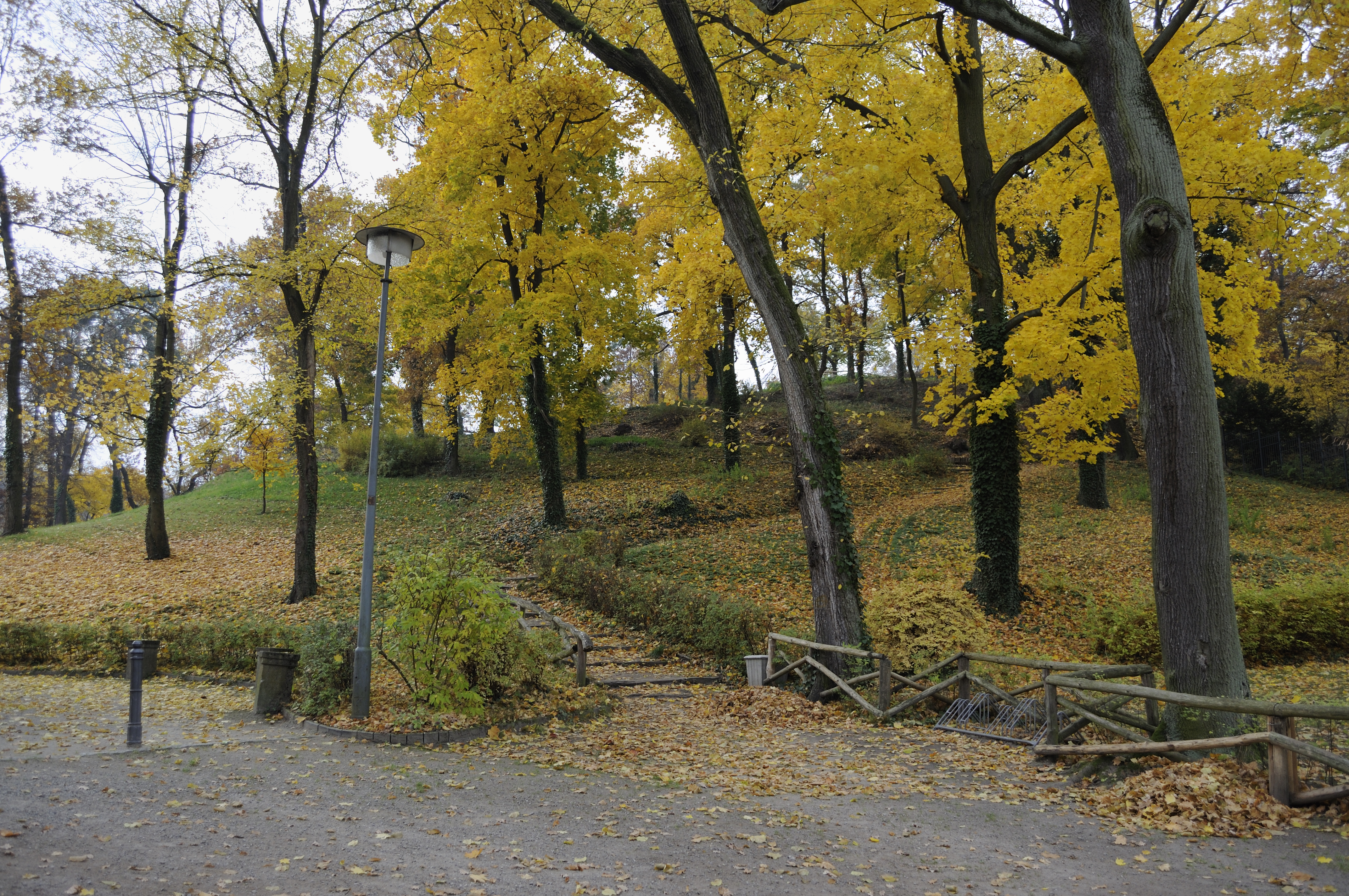 Picture taken in Bad Freienwalde.